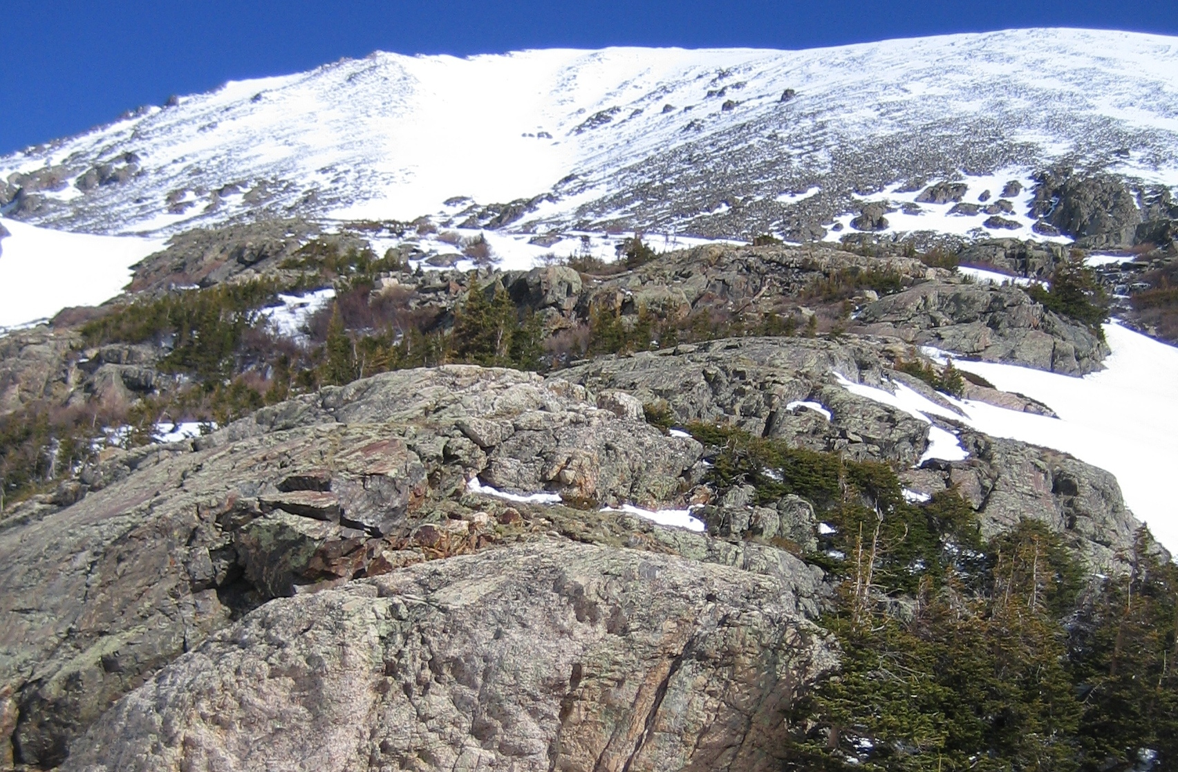 Photo of Cristo Couloir from 11,700' and the Blue Lakes Dam parking lot